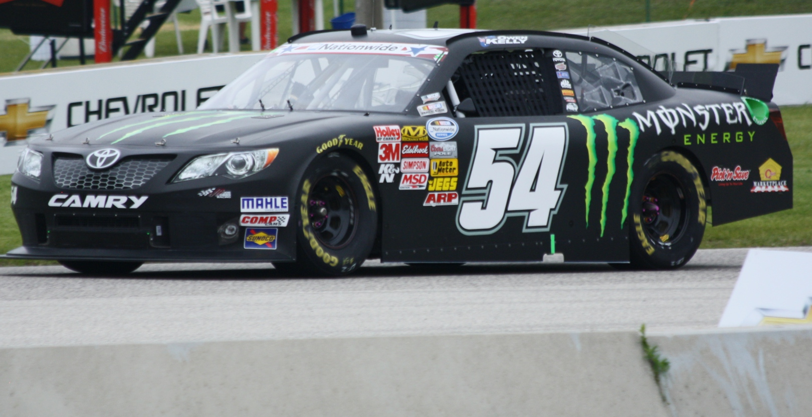 The NASCAR Nationwide car of Owen Kelly during the w:2013 Johnsonville Sausage 200 at Road America.